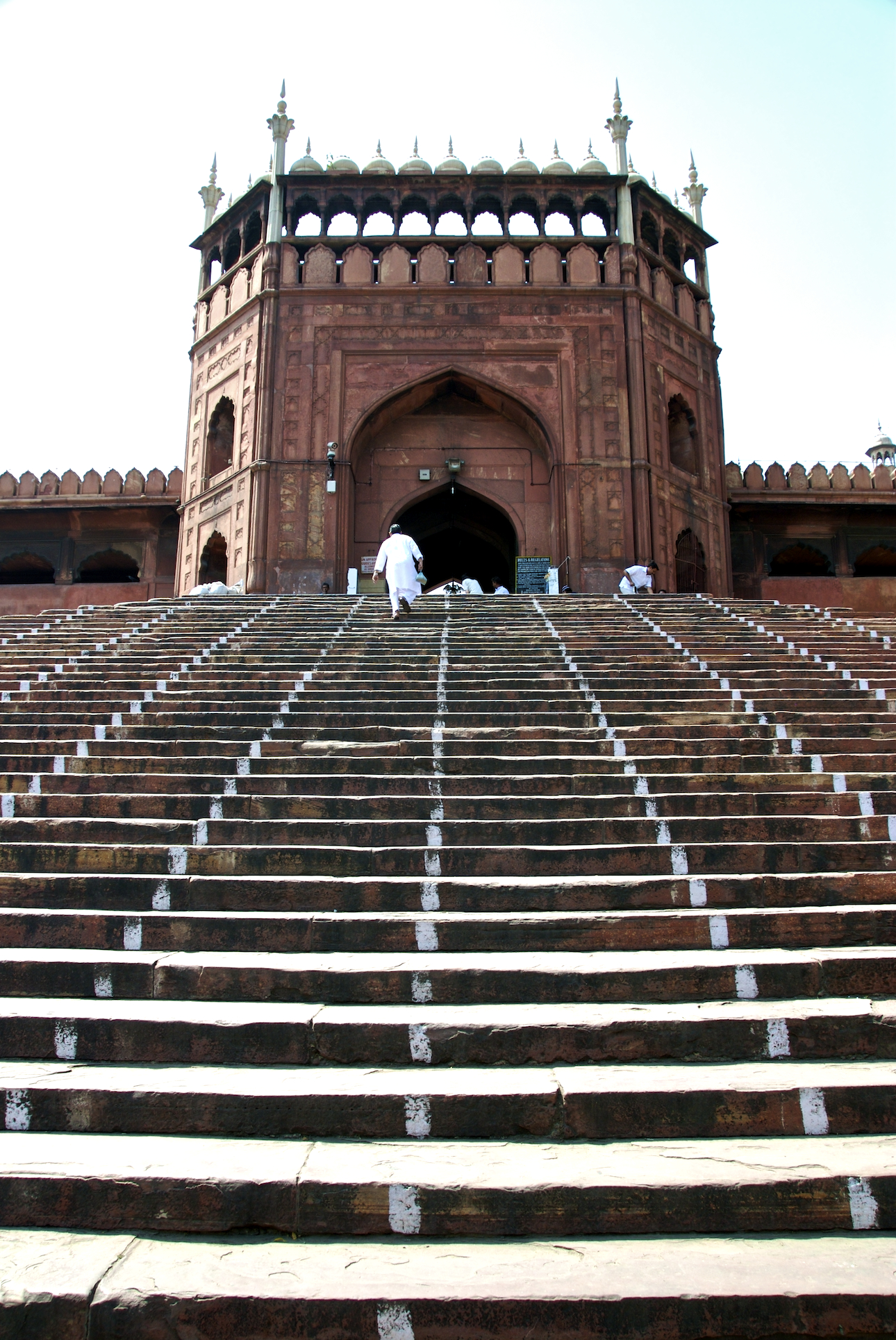 After an amazing ride on a bike-powered taxi through the innards of Old Delhi, Sun Sachs and I had the chance to explore the largest mosque in Asia. The Jama Masjid of Delhi, is the principal mosque of Old Delhi in India. Commissioned by the Mughal Emperor Shah Jahan, builder of the Taj Mahal, and completed in the year 1656 AD, it is at the beginning of a very busy and popular center in Old Delhi called Chandni Chowk.